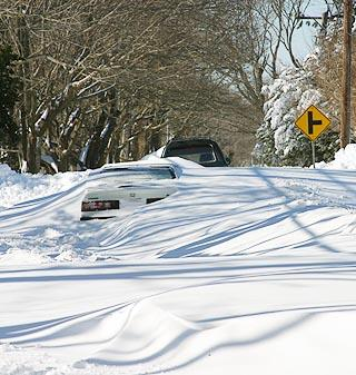 Picture I took from the Blizzard of 2005 in Yarmouth, Massachusetts.